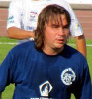 Dmitri Radchenko is a retired Russian footballer